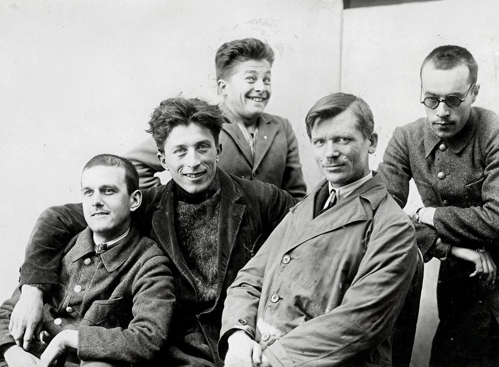 Bulgarian photographers in 1926